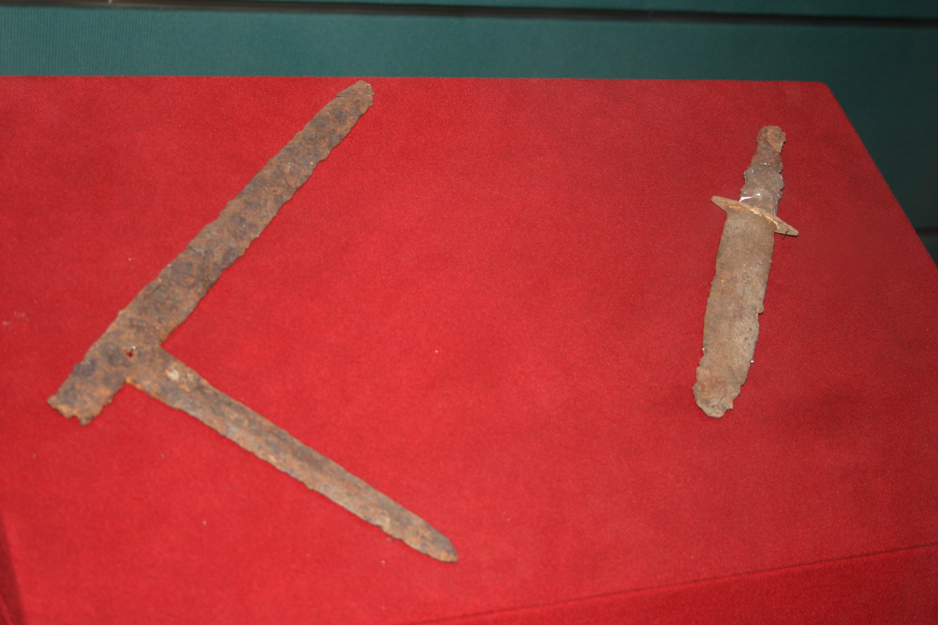 An iron ji and iron knife from the Chinese Han Dynasty